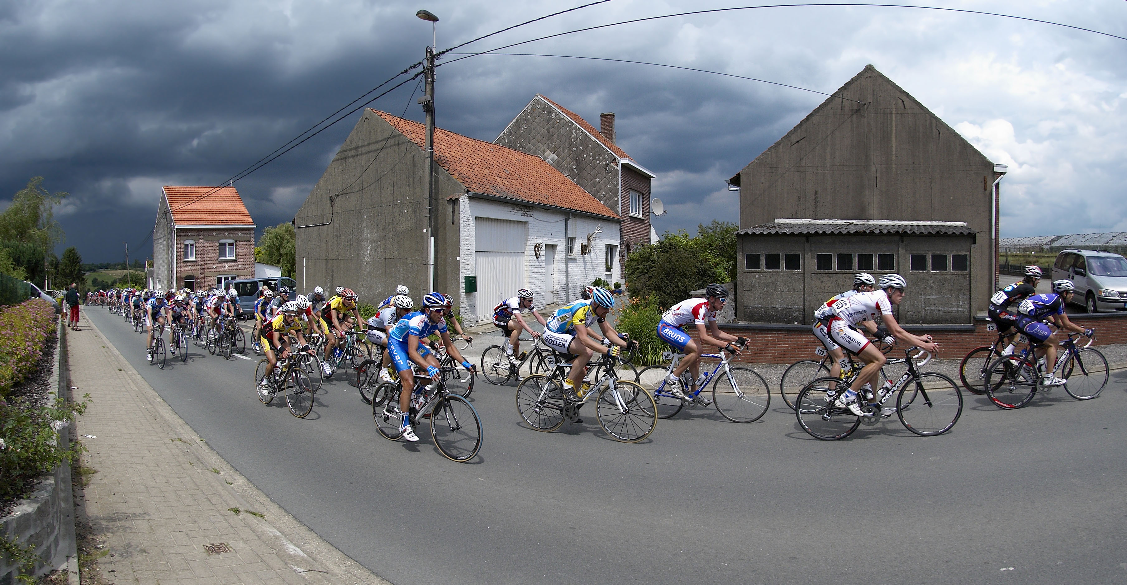 Bicycle race "Grote Prijs de Immotheker". Photo taken in Huldenberg, Belgium